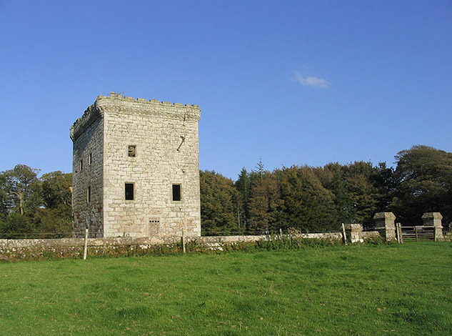 Stapleton Tower and Crow Wood Stapleton Tower built by the Johnstones is empty but kept in good repair by the Vivers family. Viewed on a fine October day with Crow Wood in the background.